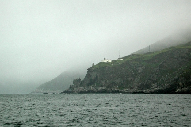 The Mull of Kintyre Lighthouse. The lighthouse at the very tip of the Mull of Kintyre on a foggy day